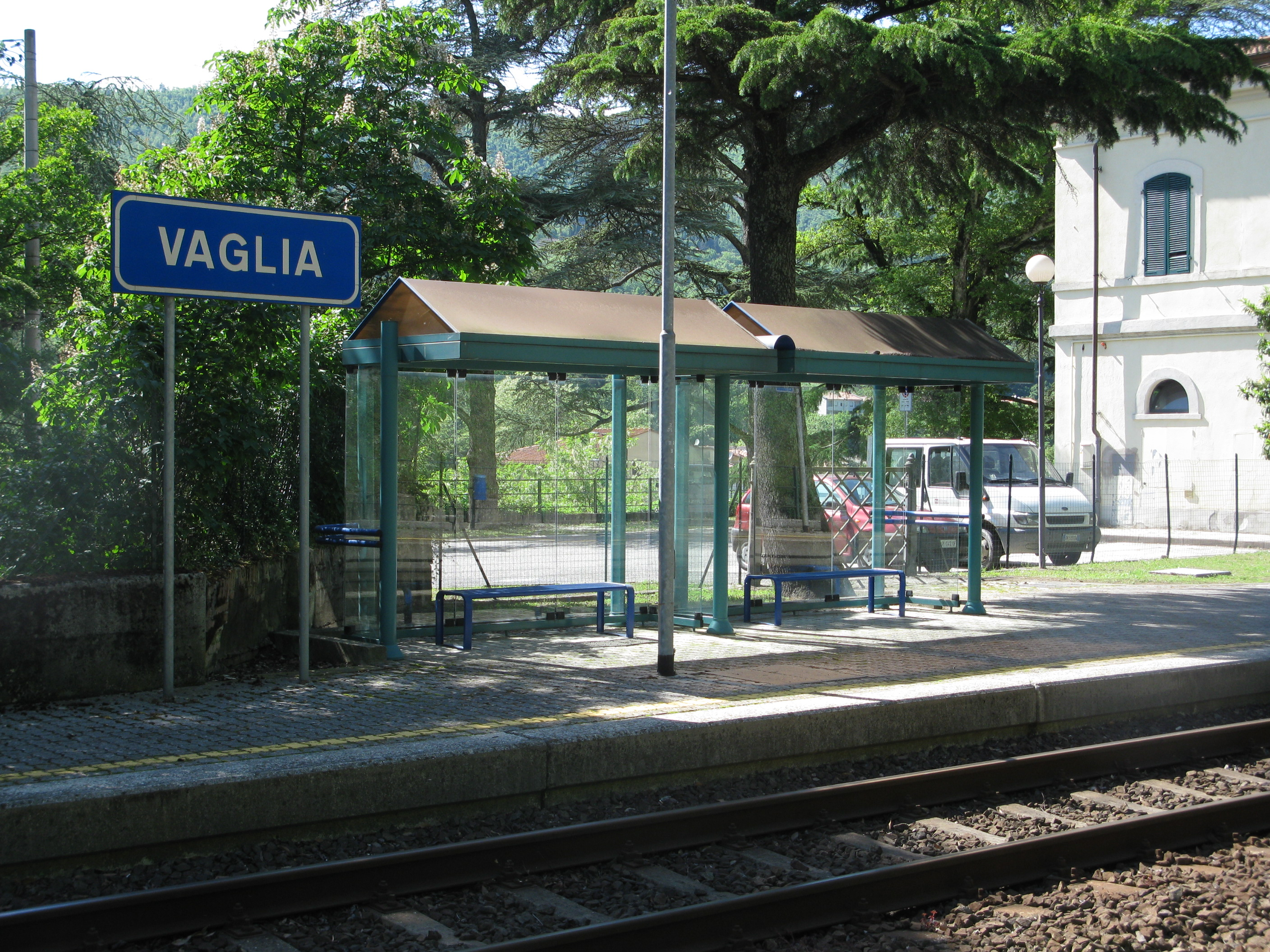 Vaglia railway station, station roof of platform 1